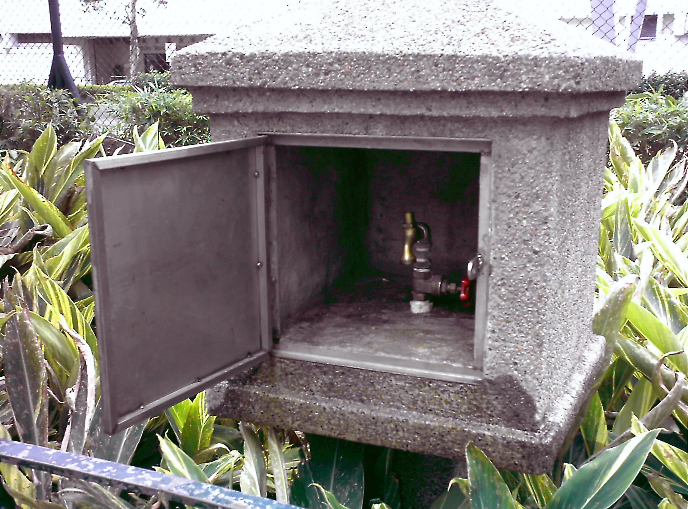 Water Tap Case at King George V Memorial Park, Kowloon, Hong Kong 中文（香港）: 香港，九龍佐治五世紀念公園裡的水龍頭箱。